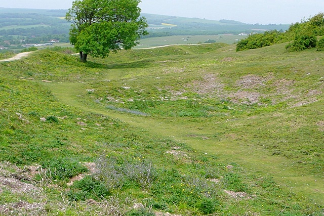 Workings at Cissbury Ring This is the south-western side and lowest part of the ring. The depression seen here is the site of one of the former flint mines. These would have been dug as deep pits through the layers of chalk and poor flint to a good seam of flint about 30 feet below. This would have been worked out horizontally, and hauled to the surface here, within the safety of the ring fortifications. Flints were used as tools and weapons. This was all stone age stuff, 5,000 years ago.